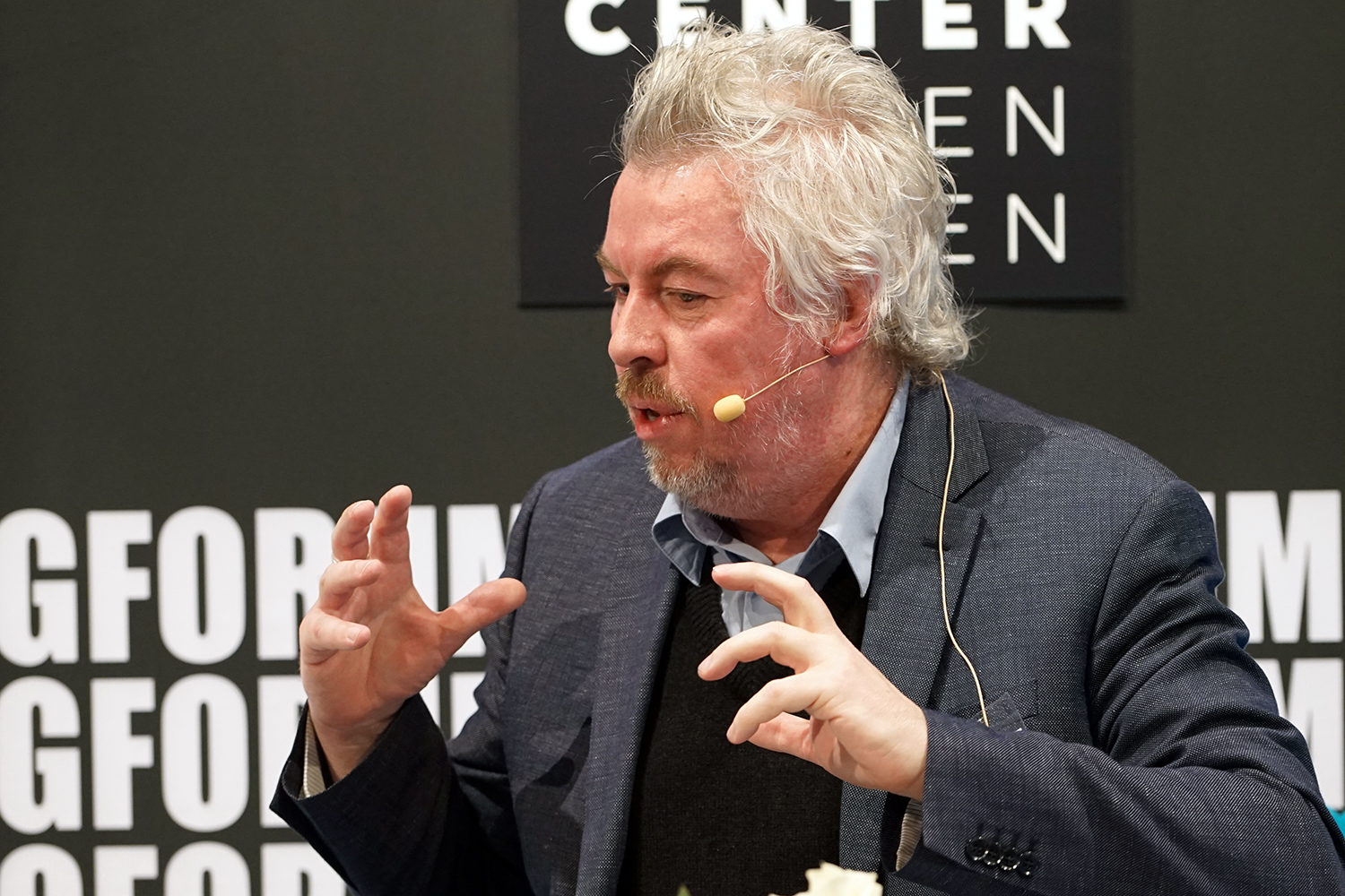 Rune Christiansen - Norwegian poet and writer at the Copenhagen Book Fair "BogForum 2015", Copenhagen, Denmark